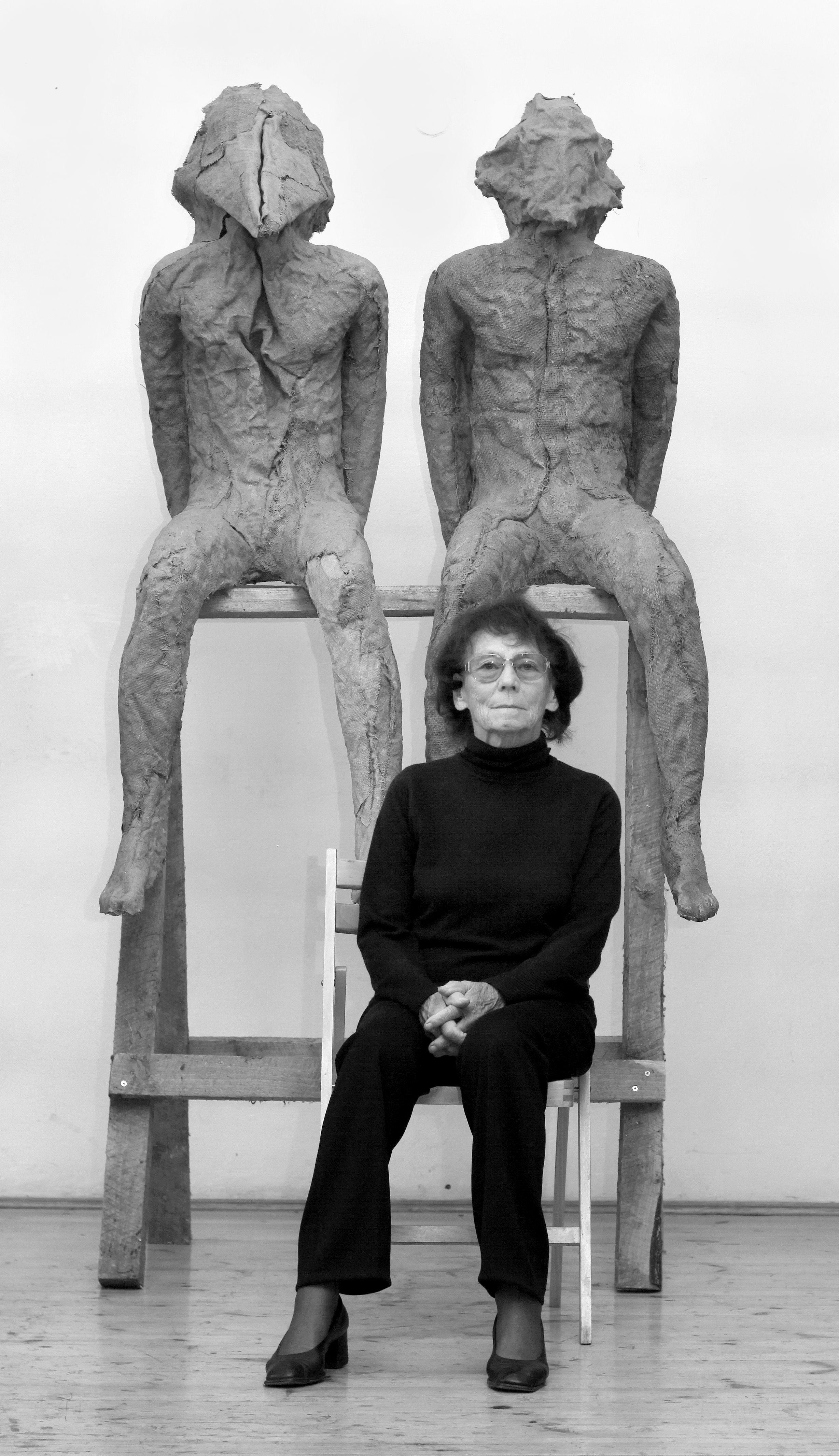 M. Abakanowicz in her art room.